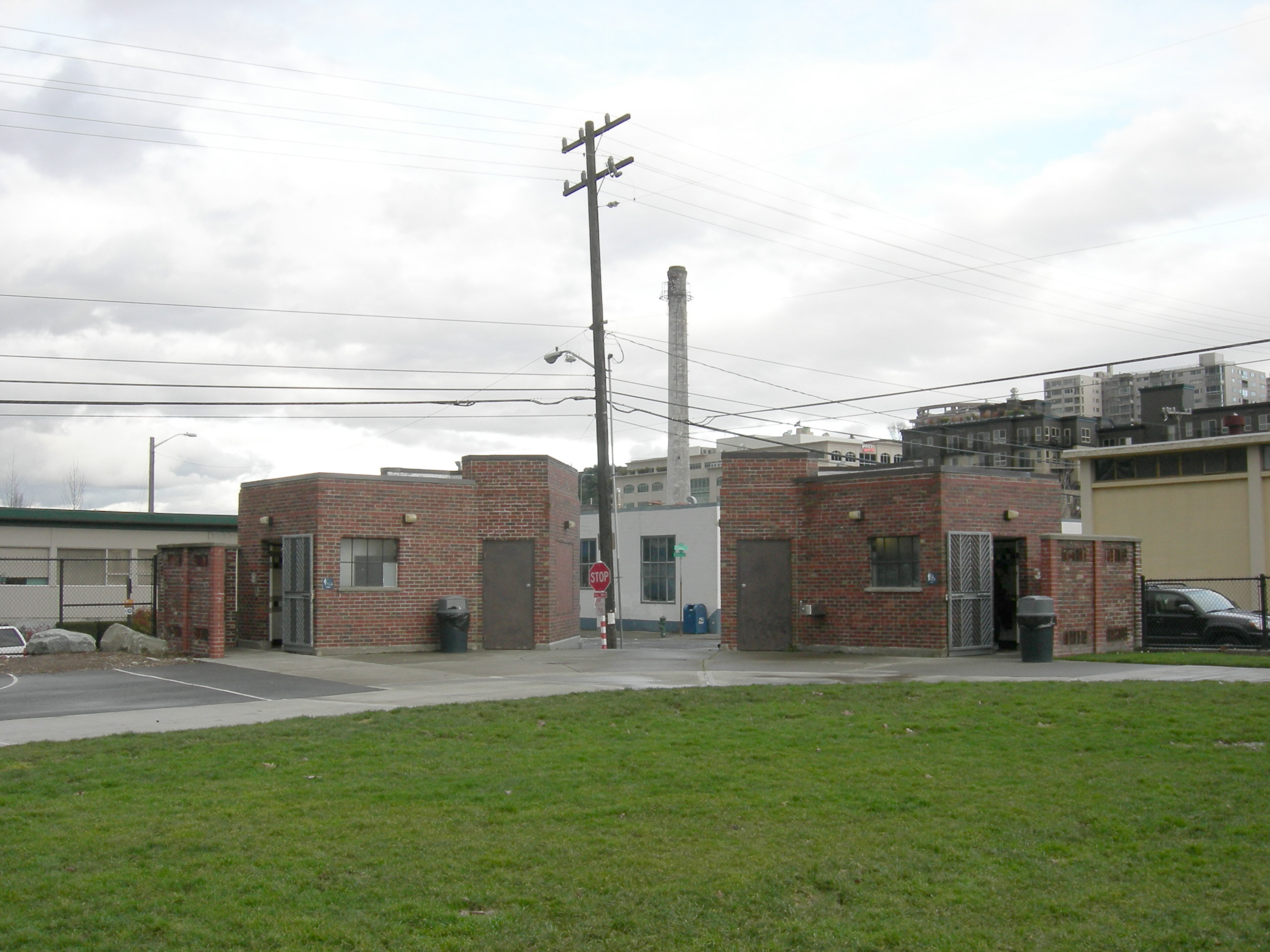 Restrooms at the northeast corner of the Cascade Playground in the Cascade neighborhood of Seattle, Washington, USA. These are the most prominent remaining WPA-built structures in the park. For more about these structures, see Summary for Harrison-Thomas St, Minor-Pontius AVE / Parcel ID 2467400335, Seattle Department of Neighborhoods.